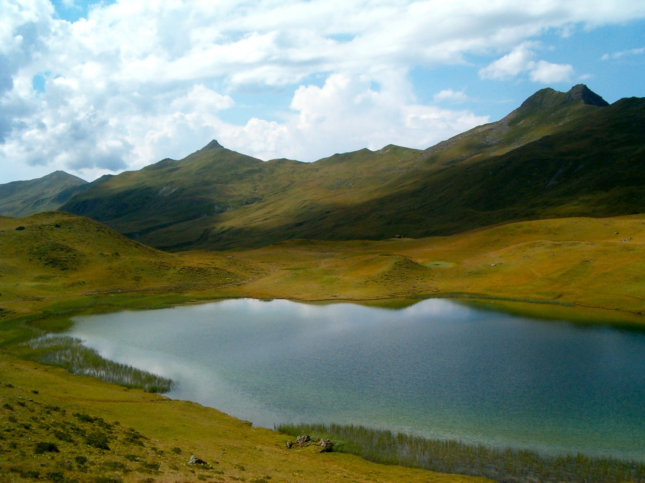 Grünsee (Duranna) at Schanfigger Höhenweg hiking trail